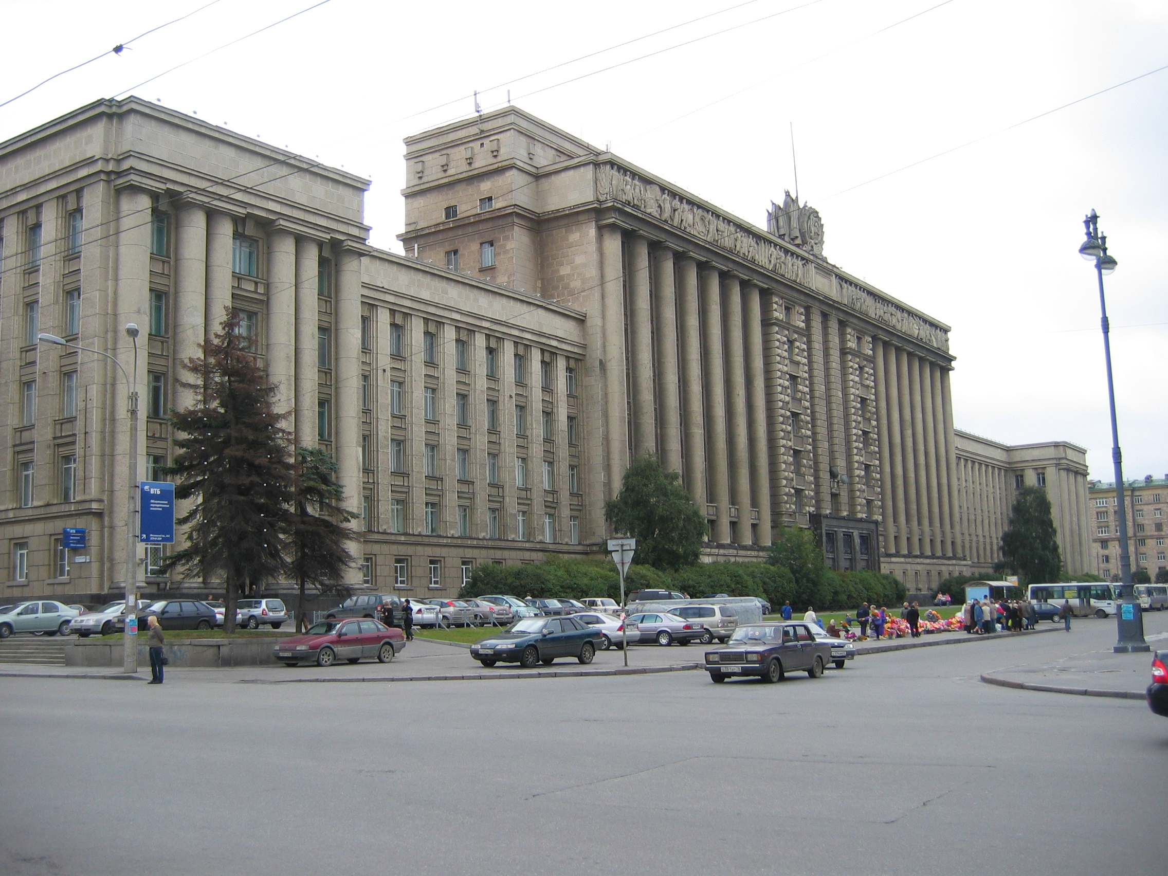 Saint Petersburg (Russia), Moskovsky Avenue.